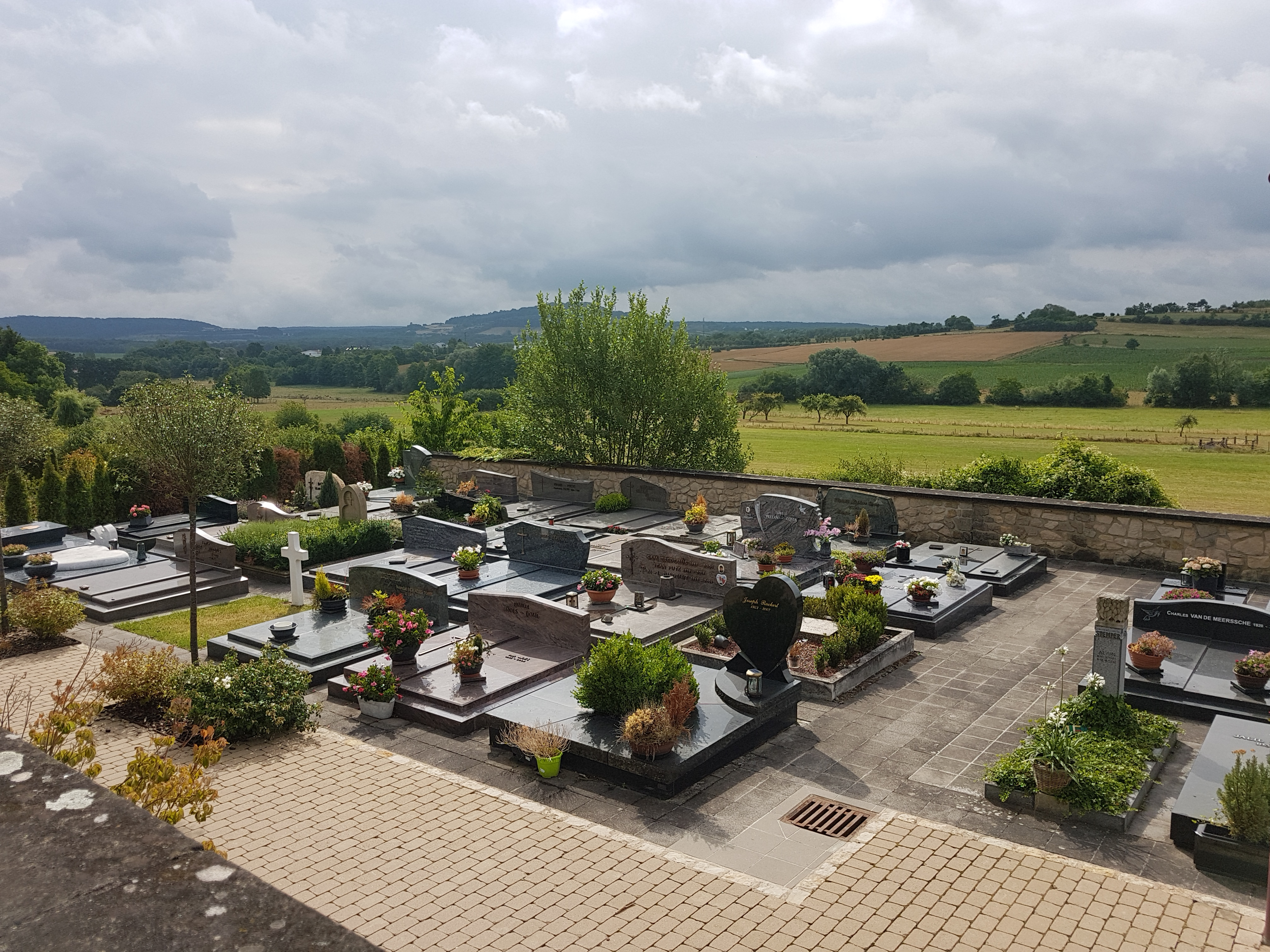 Cemetery of the Church of the Assumption (French: Cimetière de Église de l'Assomption de la Bienheureuse-Vierge-Marie, luxembourgish: "Kierfecht Nidderaanwen") in Niederanven (luxembourgish: Nidderaanwen) in the canton of Luxembourg in the Grand Duchy of Luxembourg.